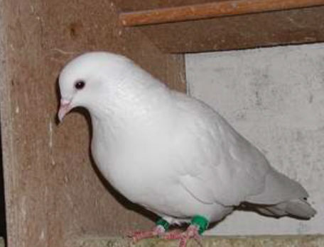 A White Cumulet Pigeon on its nest